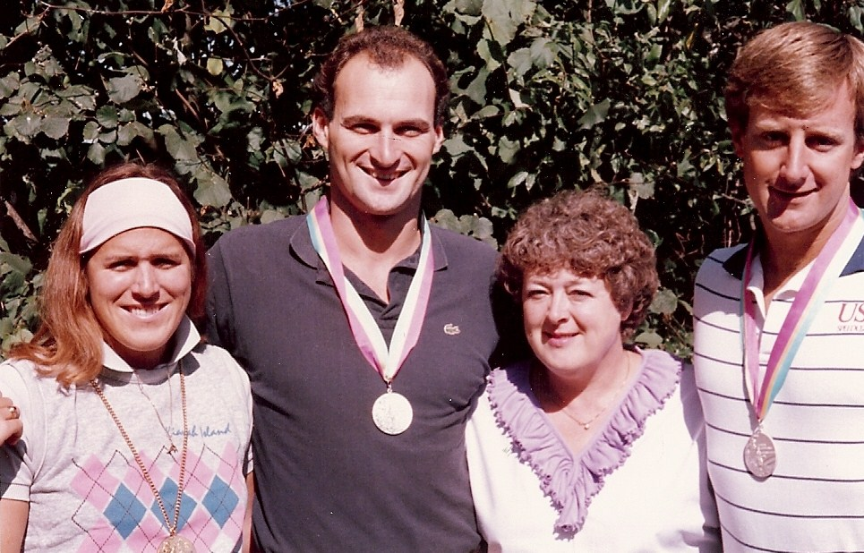 Kim Peyton-McDonald, Drew McDonald, Barbara Peyton, Chris Dorst (circa summer 1984).